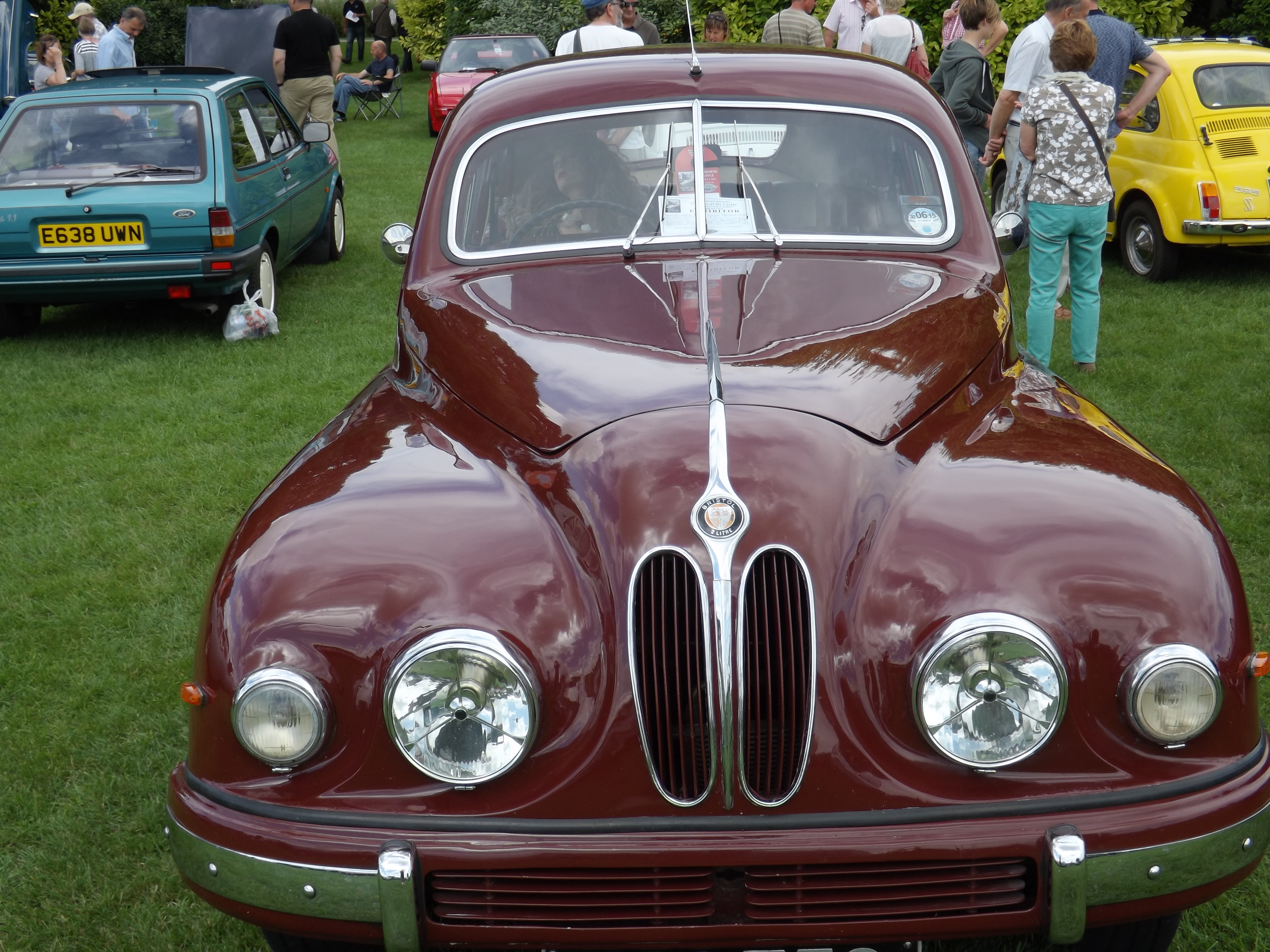 Spotted at Sherborne Classics at the Castle, 20 July 2014